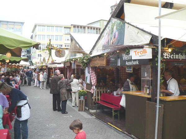 Stuttgart Weindorf 2009